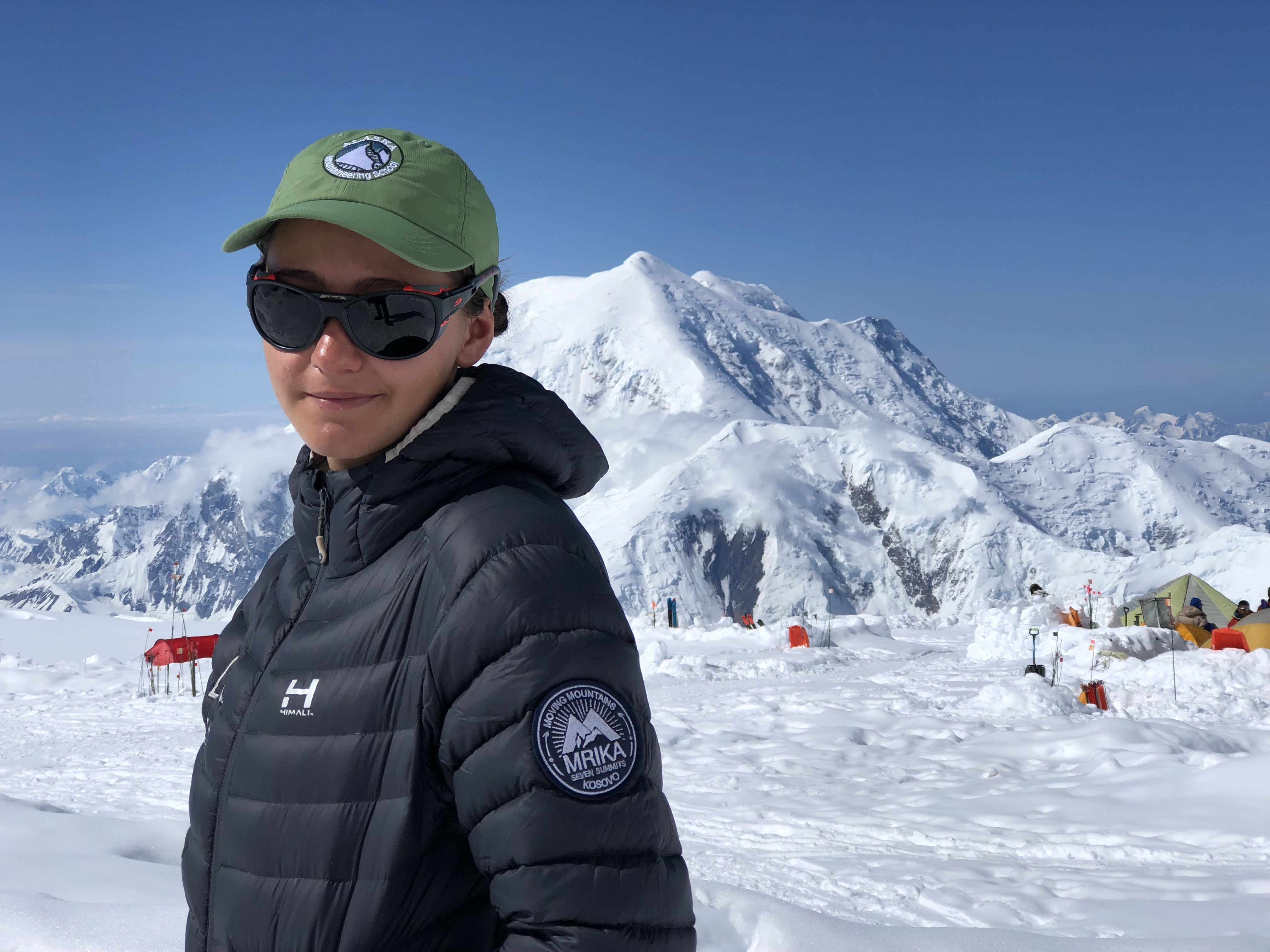 Mrika Profile Pic